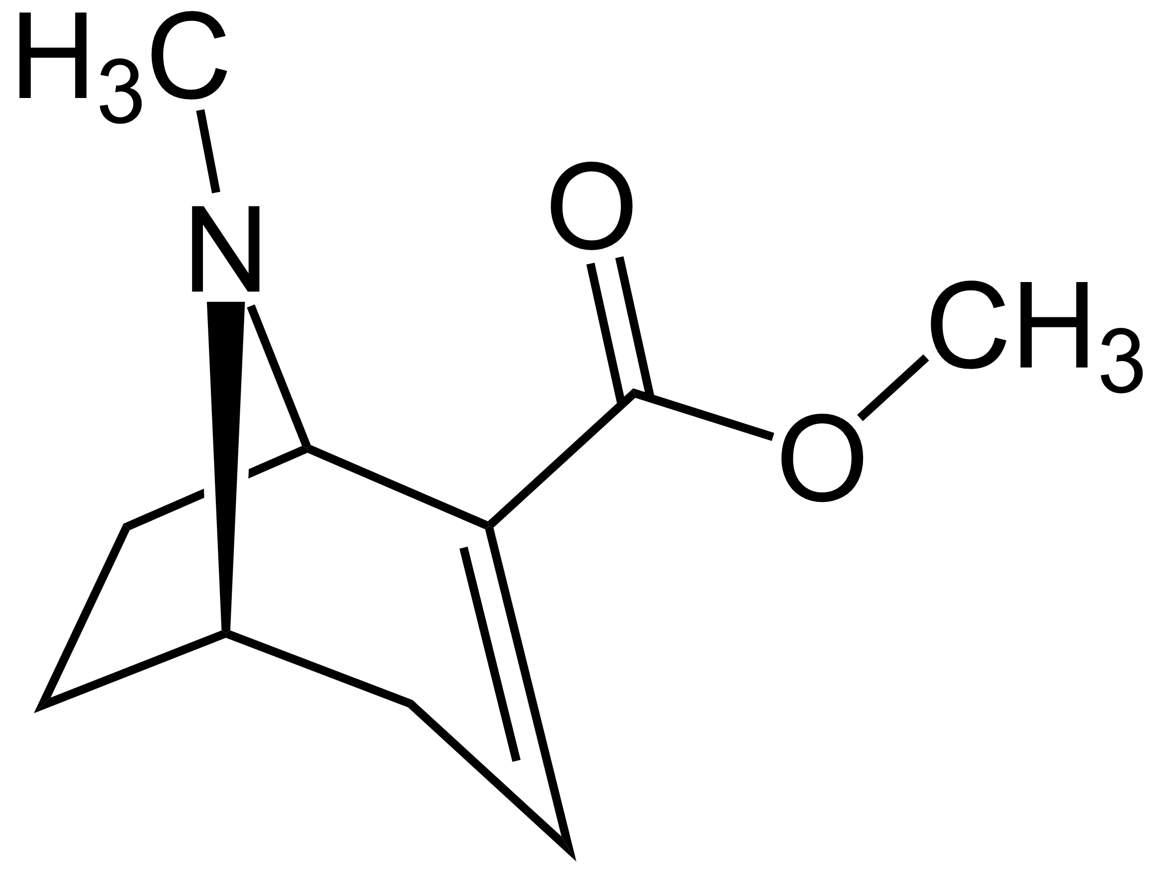 Structure of methylecgonidine